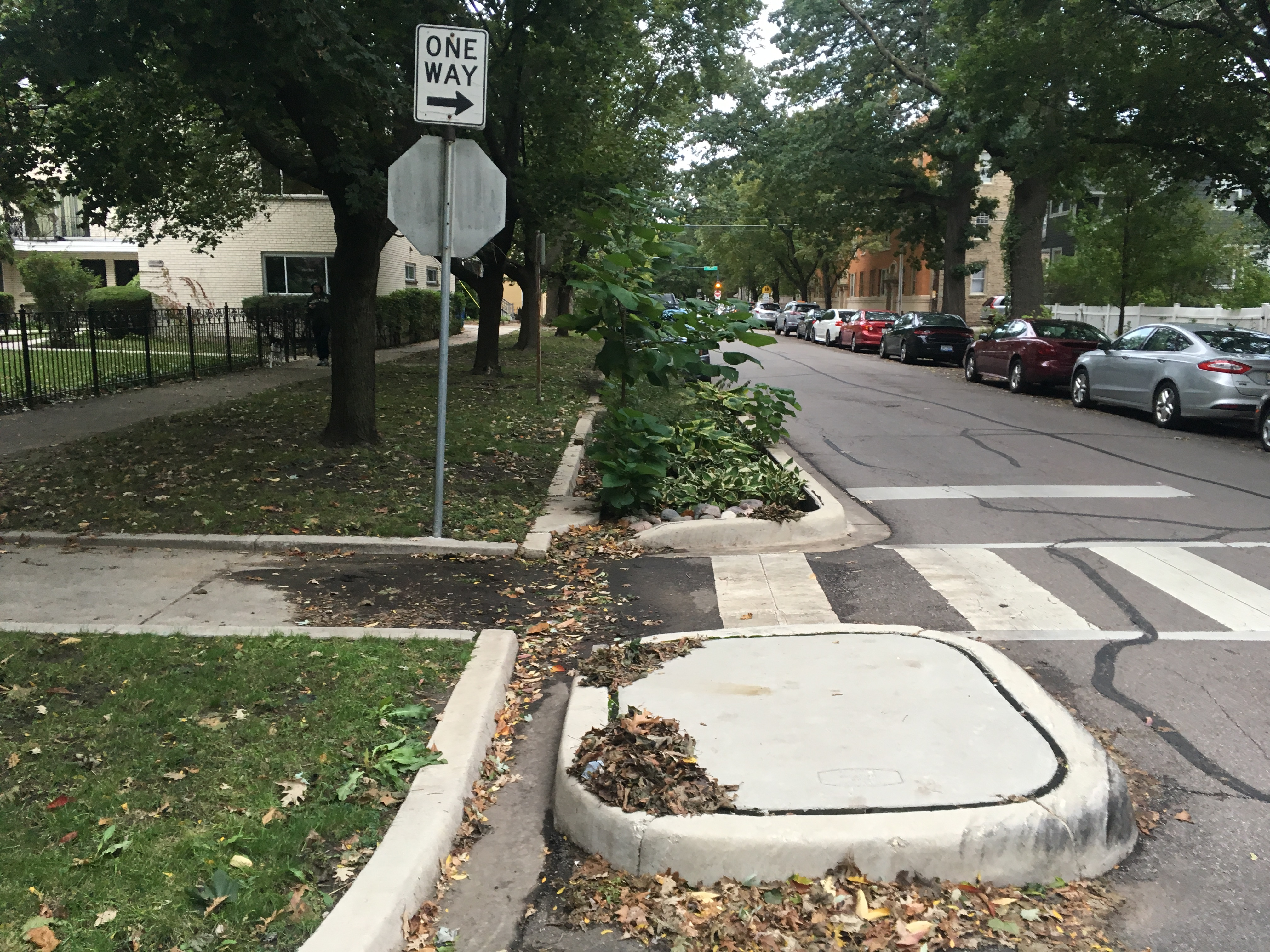 Chicago in 2017